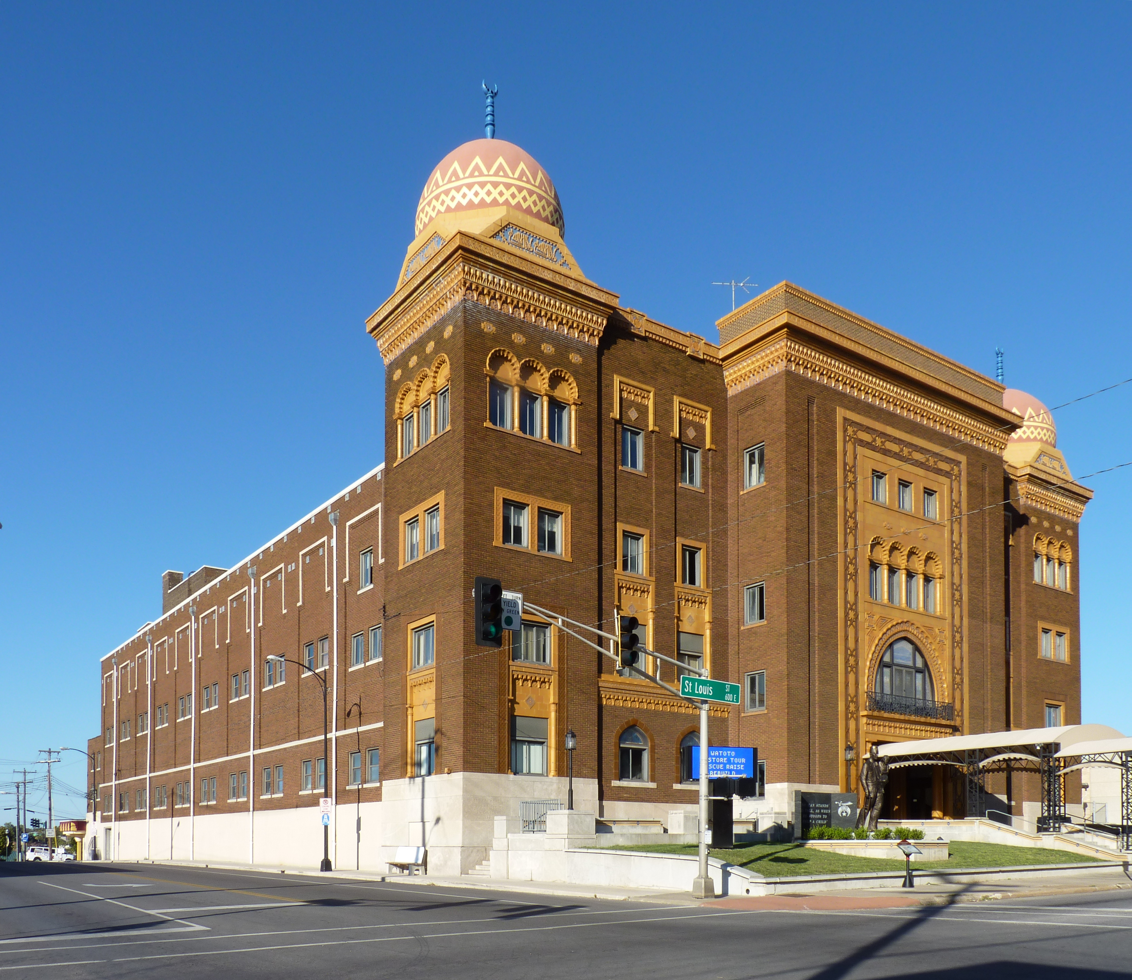 Abou Ben Adhem Shrine Mosque in Springfield, Missouri on Route 66